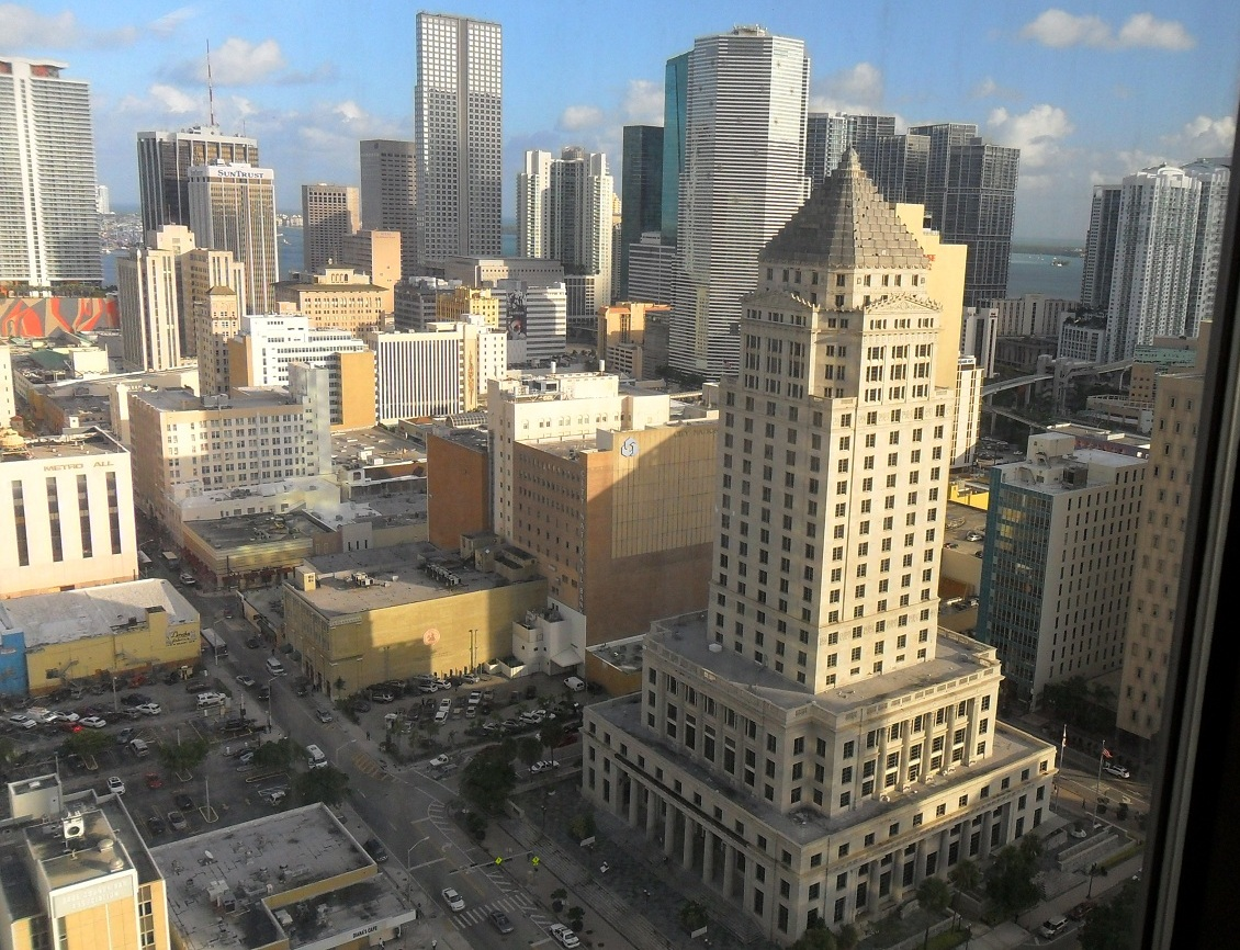 Miami downtown, FL, USA